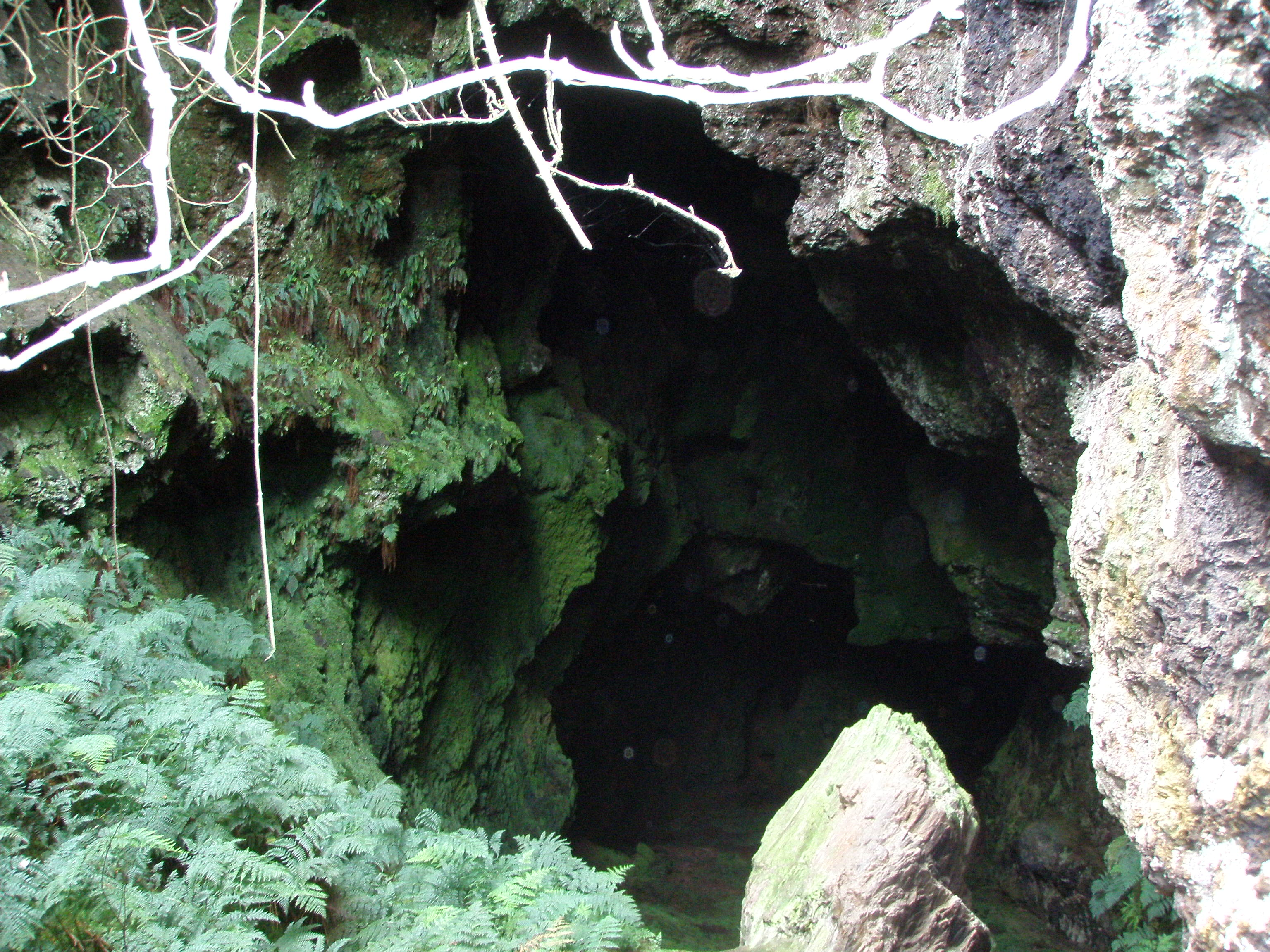 Cova das Choias, near Biduedo (A Pobra do Brollón)